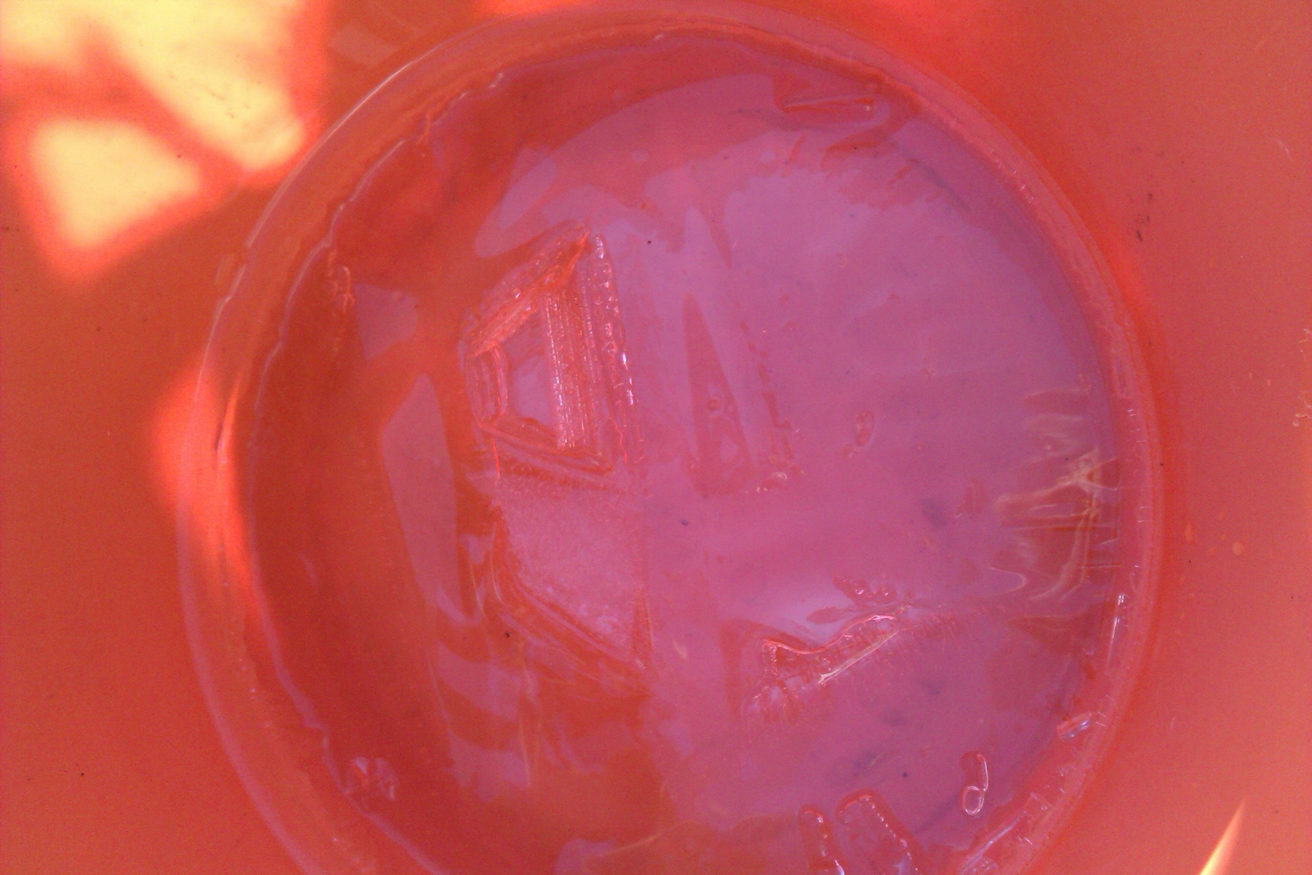 A small, trapezoid shaped ice tower (about 1cm tall) formed by natural freezing in a bucket of rainwater